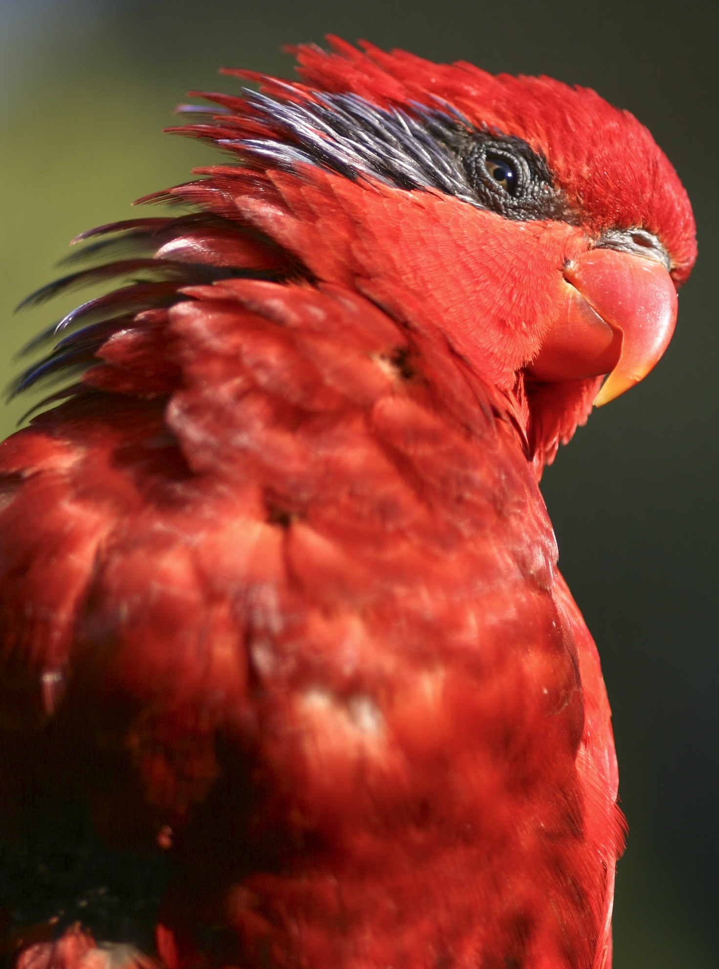 Blue-streaked Lory (also known as the Blue-necked Lory); photograph of upper body.